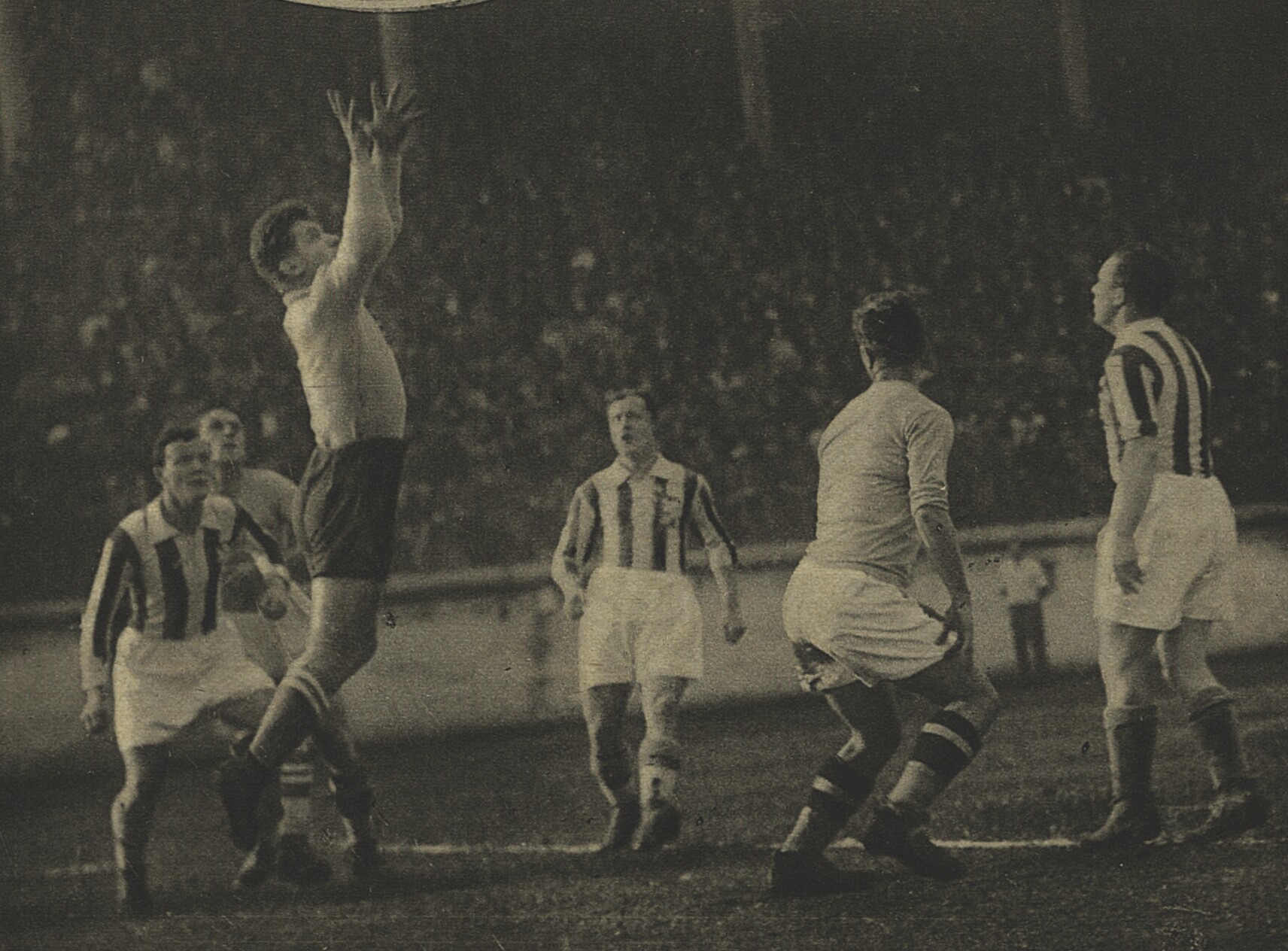 Italy-Czechoslovakia national team match in 1931. Plánička catches the ball.